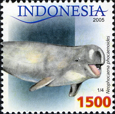 Stamps of Indonesia